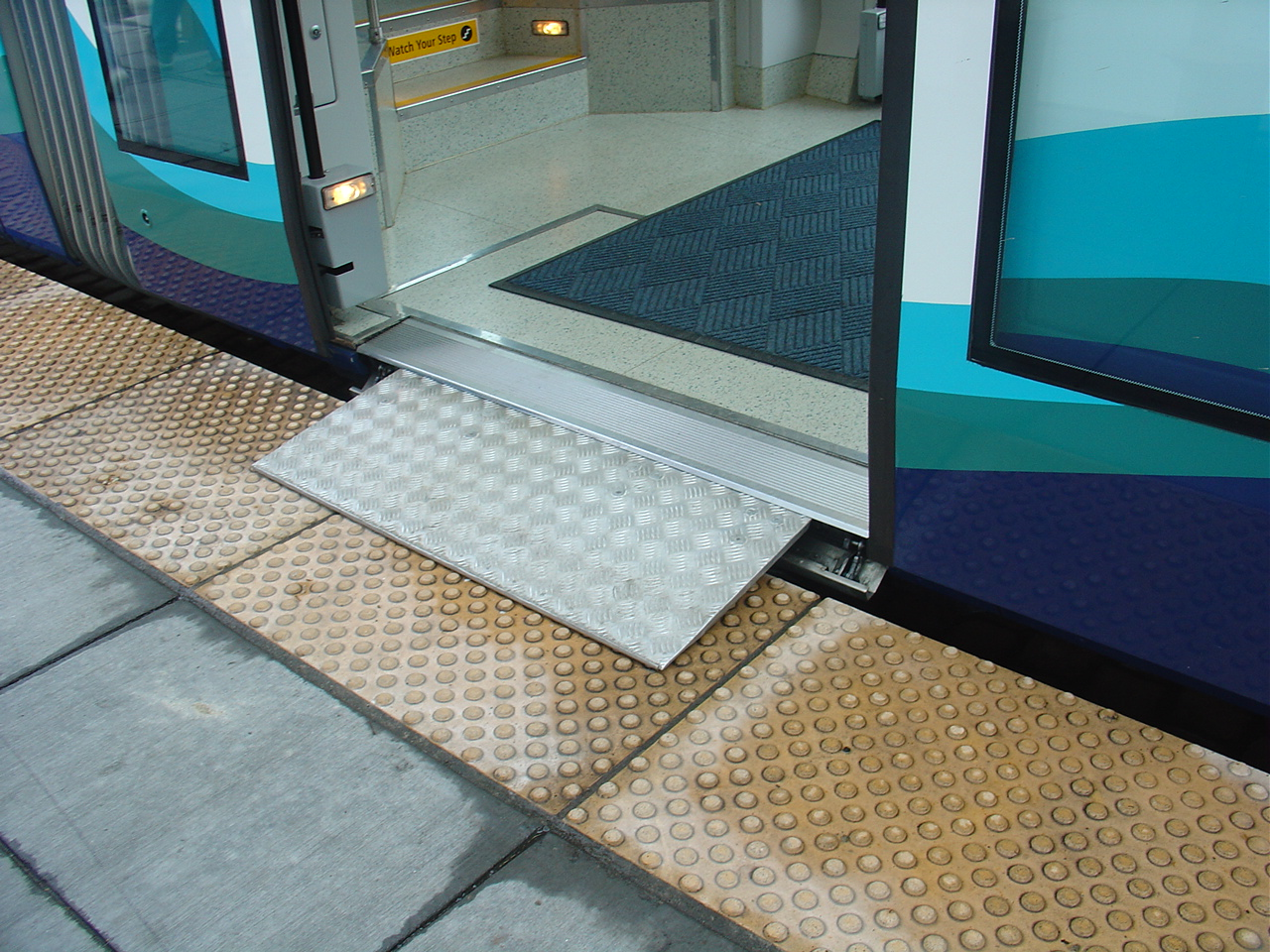 The wheelchair ramp, or bridge plate in the door of a streetcar/light-rail car on the Tacoma Link line, in Tacoma, Washington, U.S.